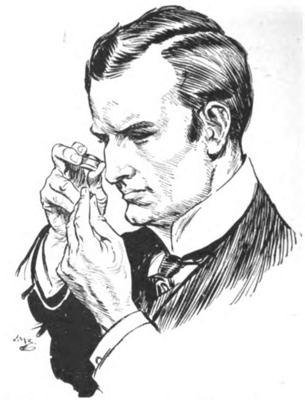 Illustration by H.M. Brock (1875-1960) for John Thorndyke's cases by R. Austin Freeman (1862-1943). First published in Pearson's Magazine during 1908 and 1909.